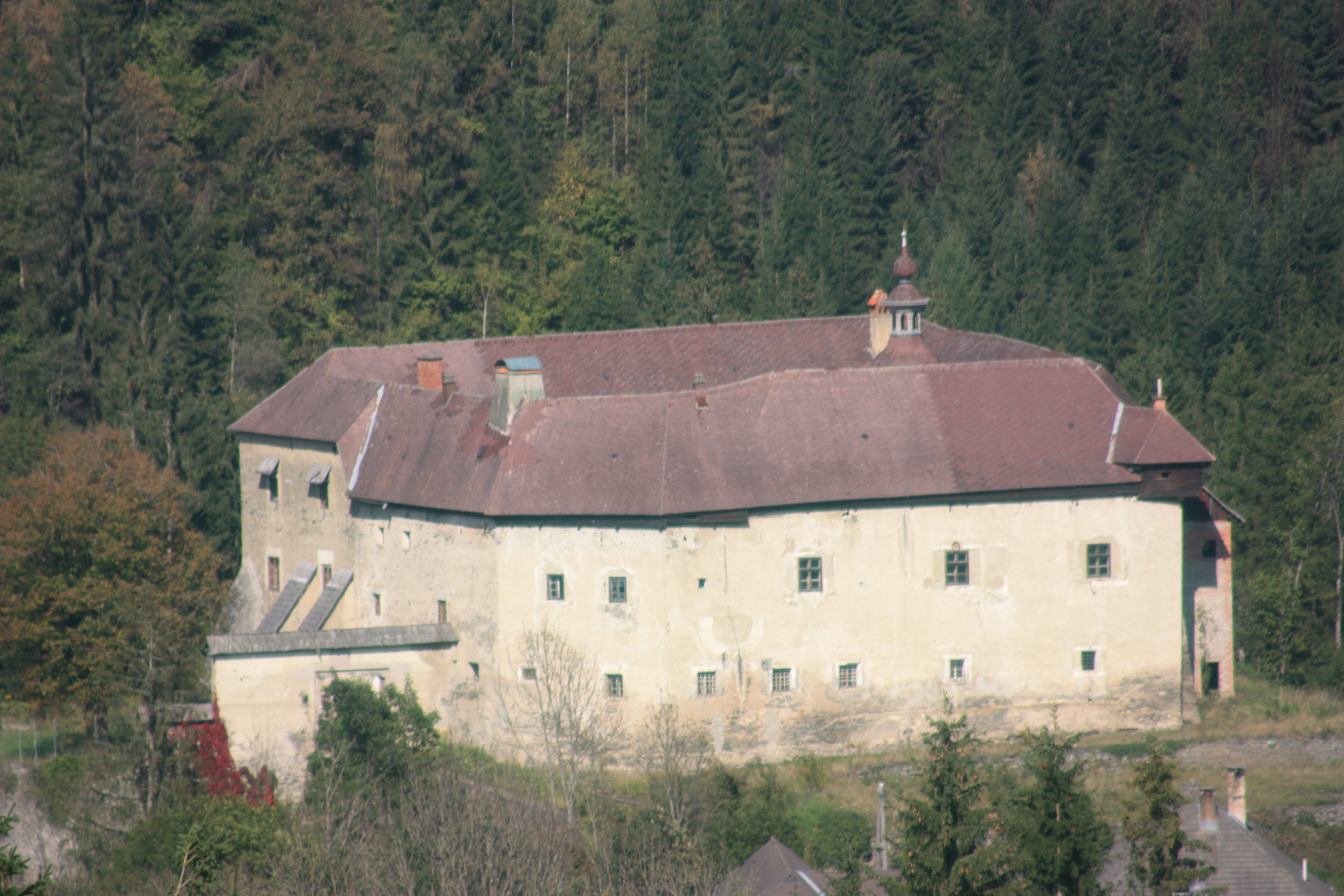 Grades castle Locality:Grades Community:Metnitz